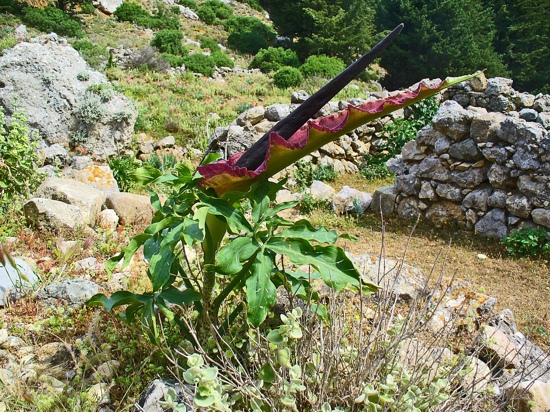 Dracunculus vulgaris,Dragon Arum, Black Arum, Voodoo Lily, Snake Lily, Stink Lily, Black Dragon, Dragonwort, Ragons, inflorescence; Palaiopyli, Kos, Greece.